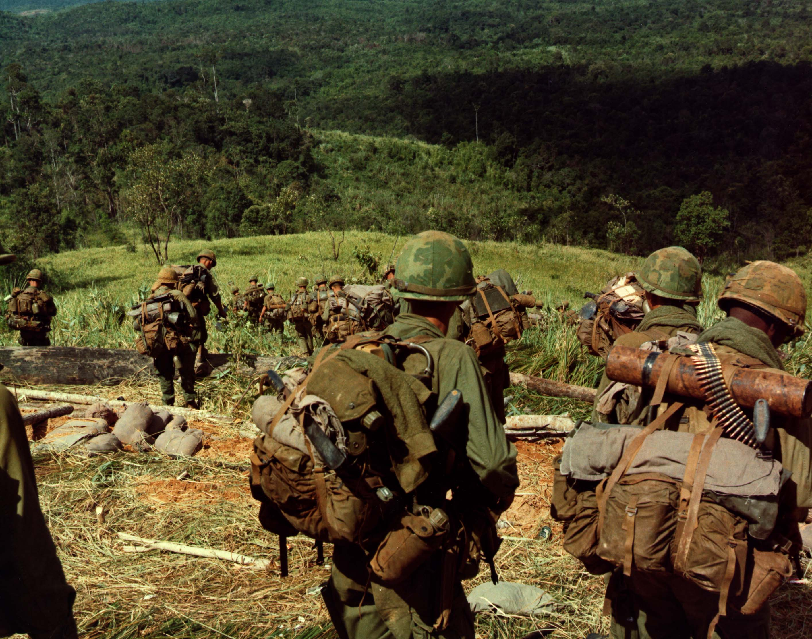 Members of Co. C, 1st Bn, 8th Inf, 1st Bde, 4th Inf Div, descend the side of Hill 742, located five miles northwest of Dak To during Operation MacArthur.